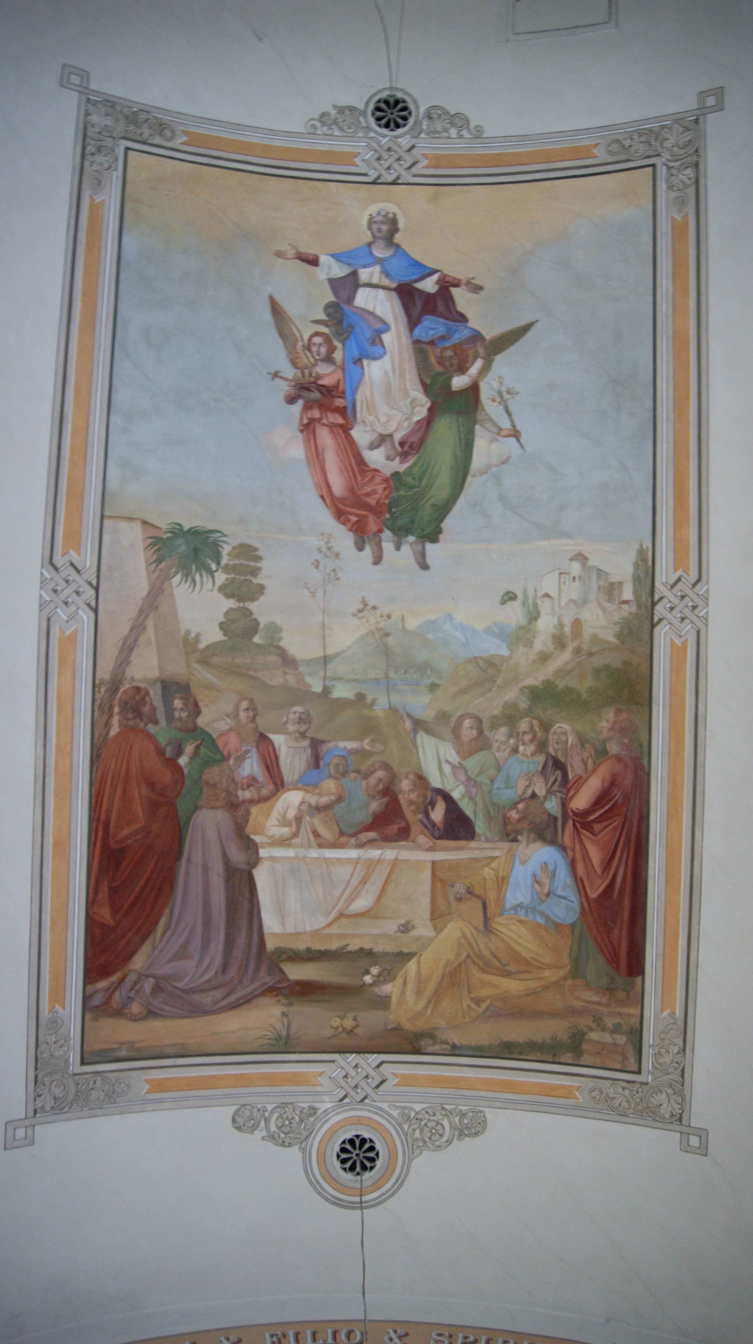 Chapel of the Holy Trinity and 14 helpers (Haselstauden) Kehlerstraße no 75a (Kehlen) in Dornbirn, Vorarlberg, Austria. Ceiling fresco "Assumption Day".